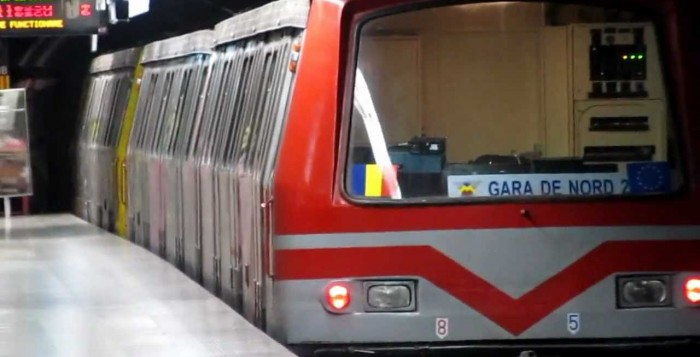 Astra Iva train